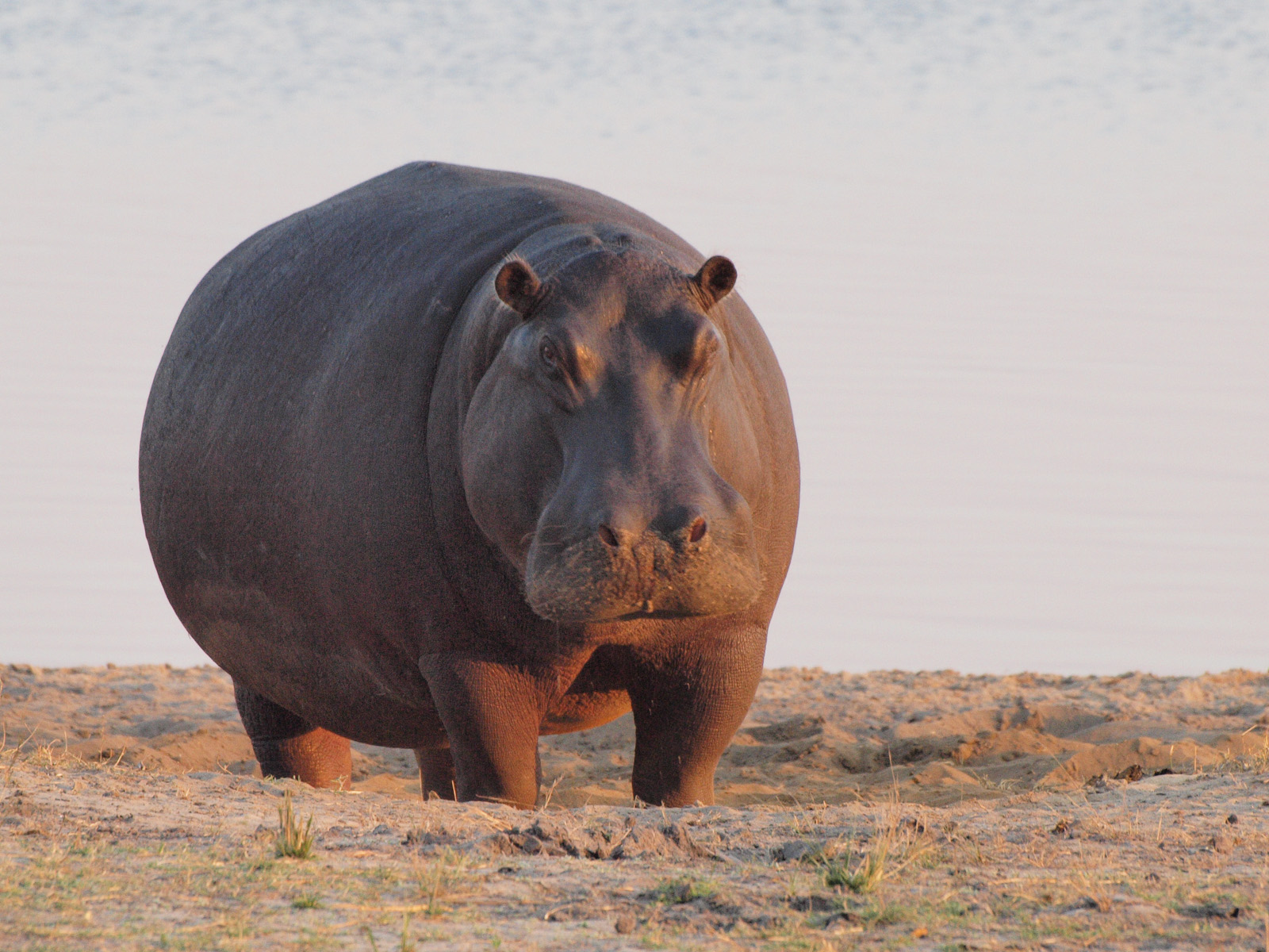 Hippo at dawn in Chobe National Park